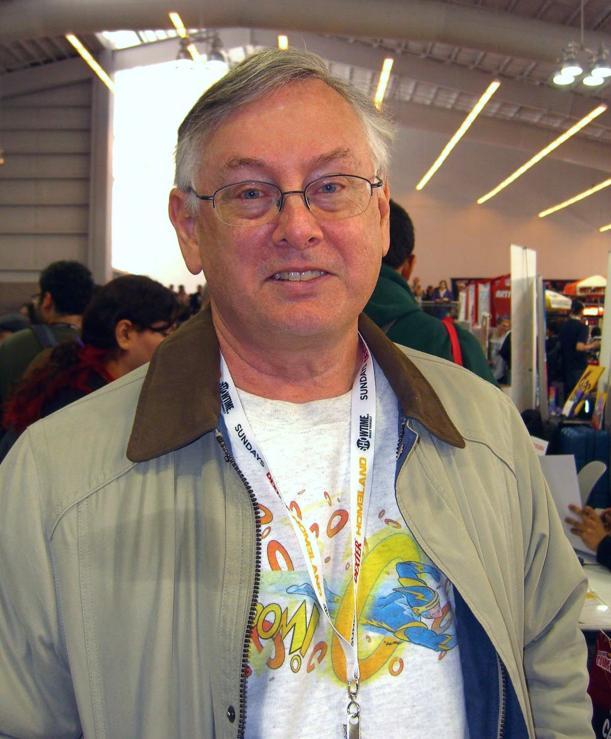 Comics creator Bob McLeod on Day 4 of the 2012 New York Comic Con, Sunday October 14, 2012 at the Jacob K. Javits Convention Center in Manhattan. This photo was created by Luigi Novi. It is not in the public domain, and use of this file outside of the licensing terms is a copyright violation.